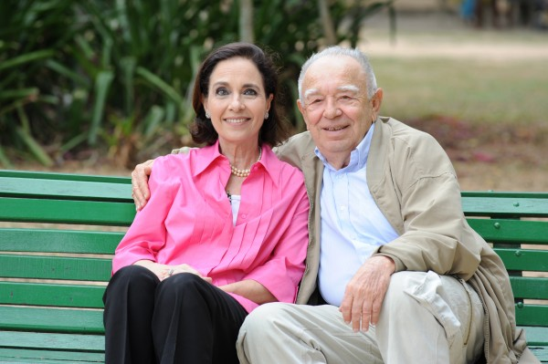 The Brazilian actor Emiliano Queiroz with the journalist Vera Barroso.